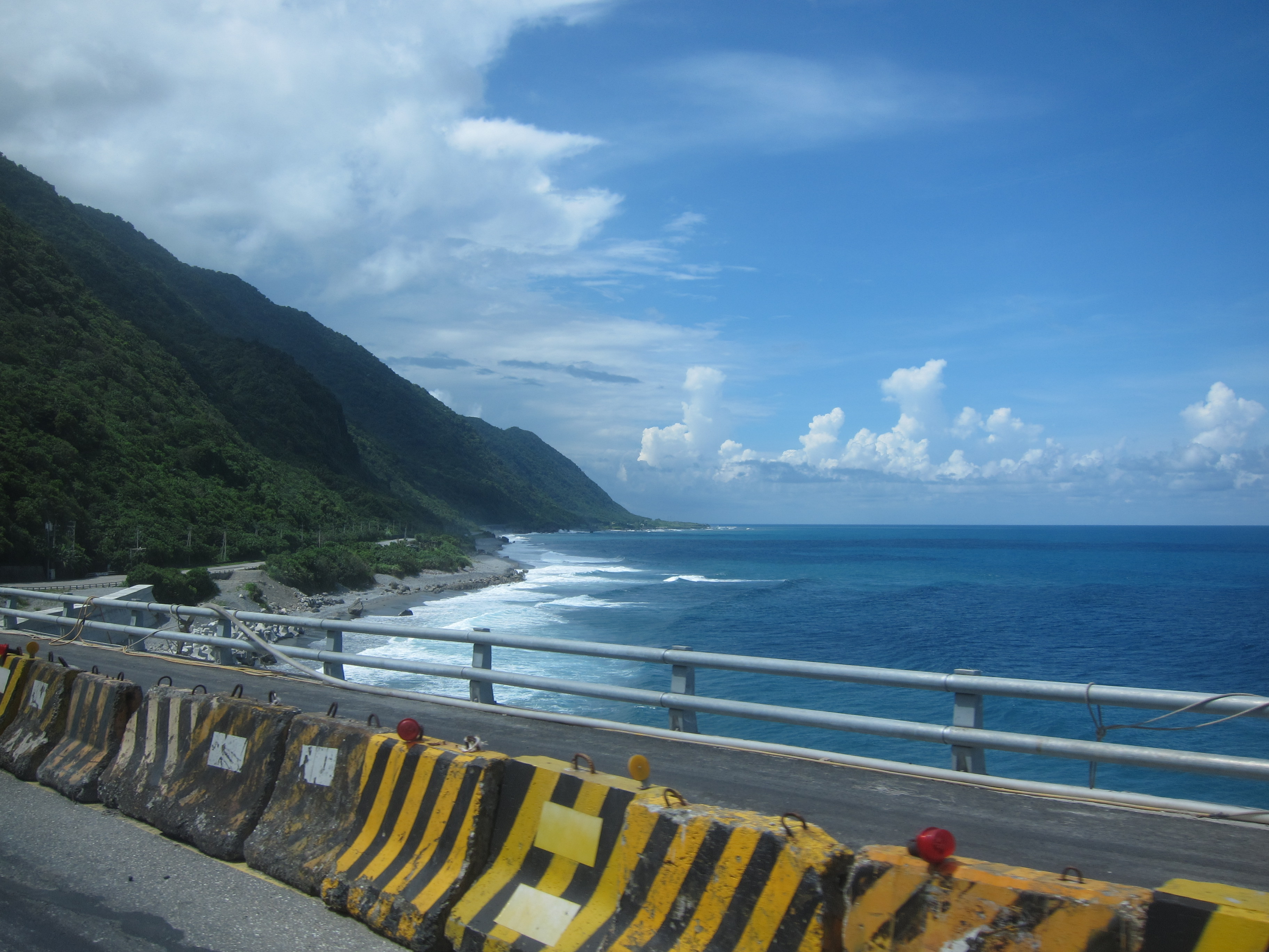 Coastal road in Hualien County, Taiwan.